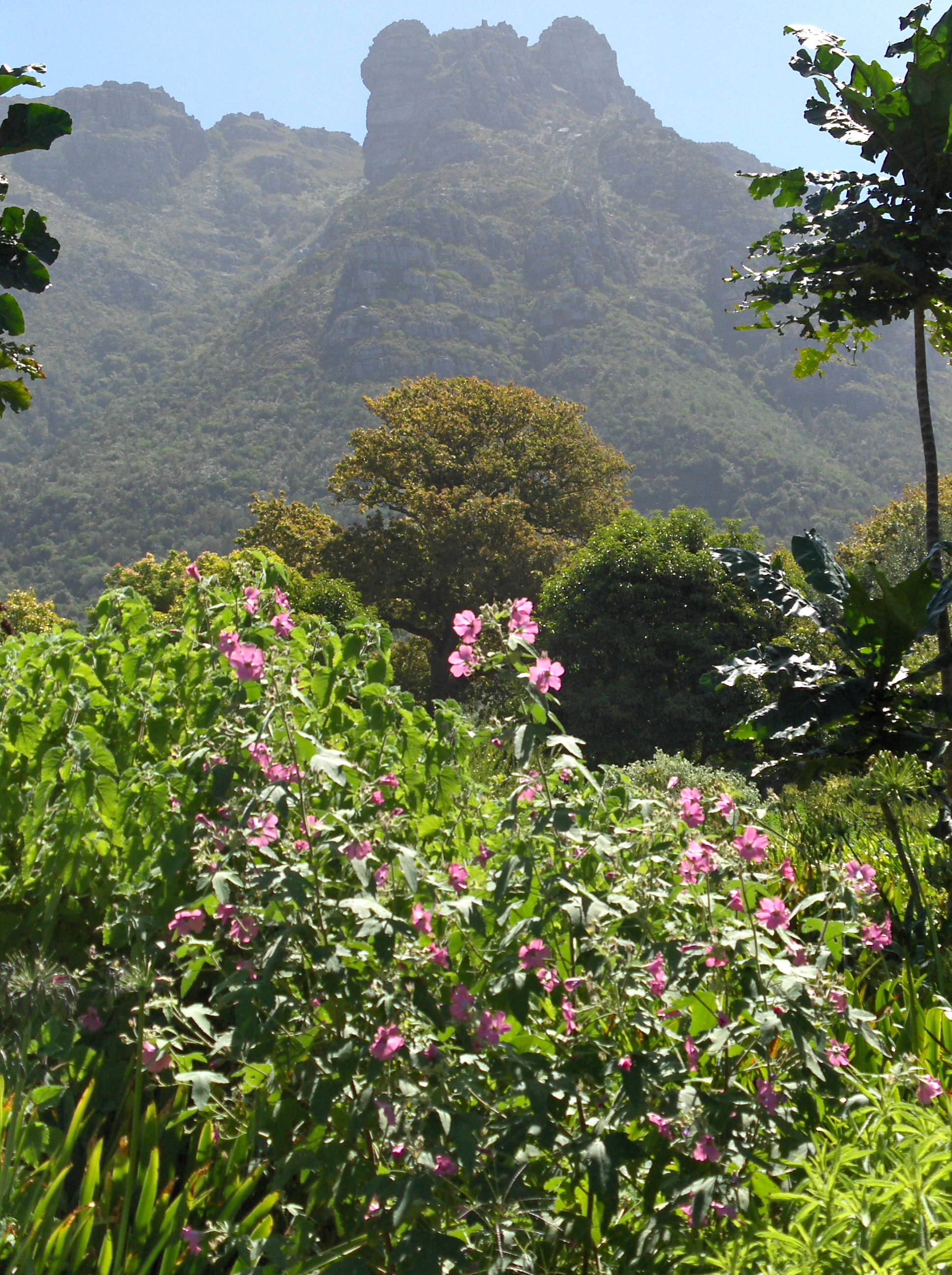 Kirstenbosch Botanical Garden, Cape Town, South Africa. View towards the eastern slope of Table mountain.